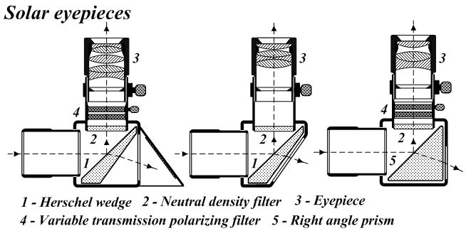 Solar eyepieces. An eyepiece for a telescope designed for visual observation of the sun. A solar eyepiece is used to provide a reduction in the brightness of the sun’s image with minimum loss of the telescope’s resolving power. Devices used in solar eyepieces to attenuate the light include neutral filters, photometer wedges, and polarizing devices.